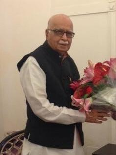 Narendra Modi wishes L.K. Advani on his birthday